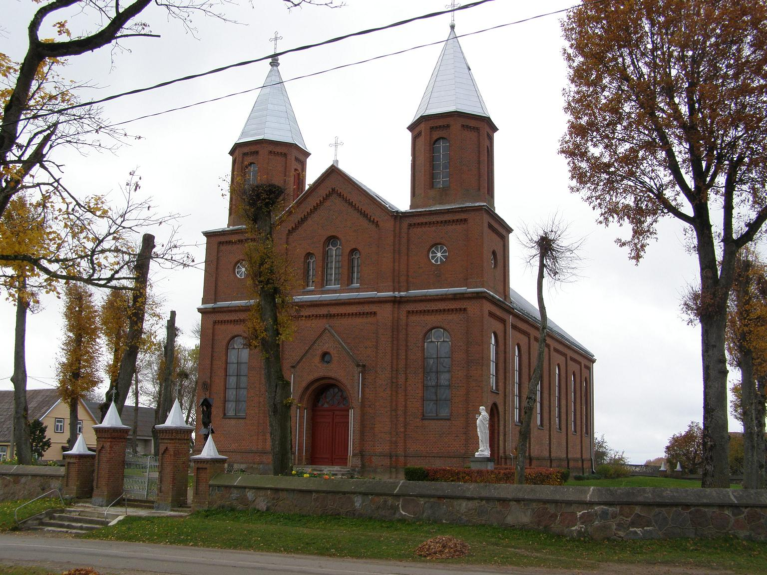 Šatės church, Skuodas district, LithuaniaLietuvių: Šačių Šv. Jono Krikštytojo bažnyčia, Skuodo rajonas, Lietuva